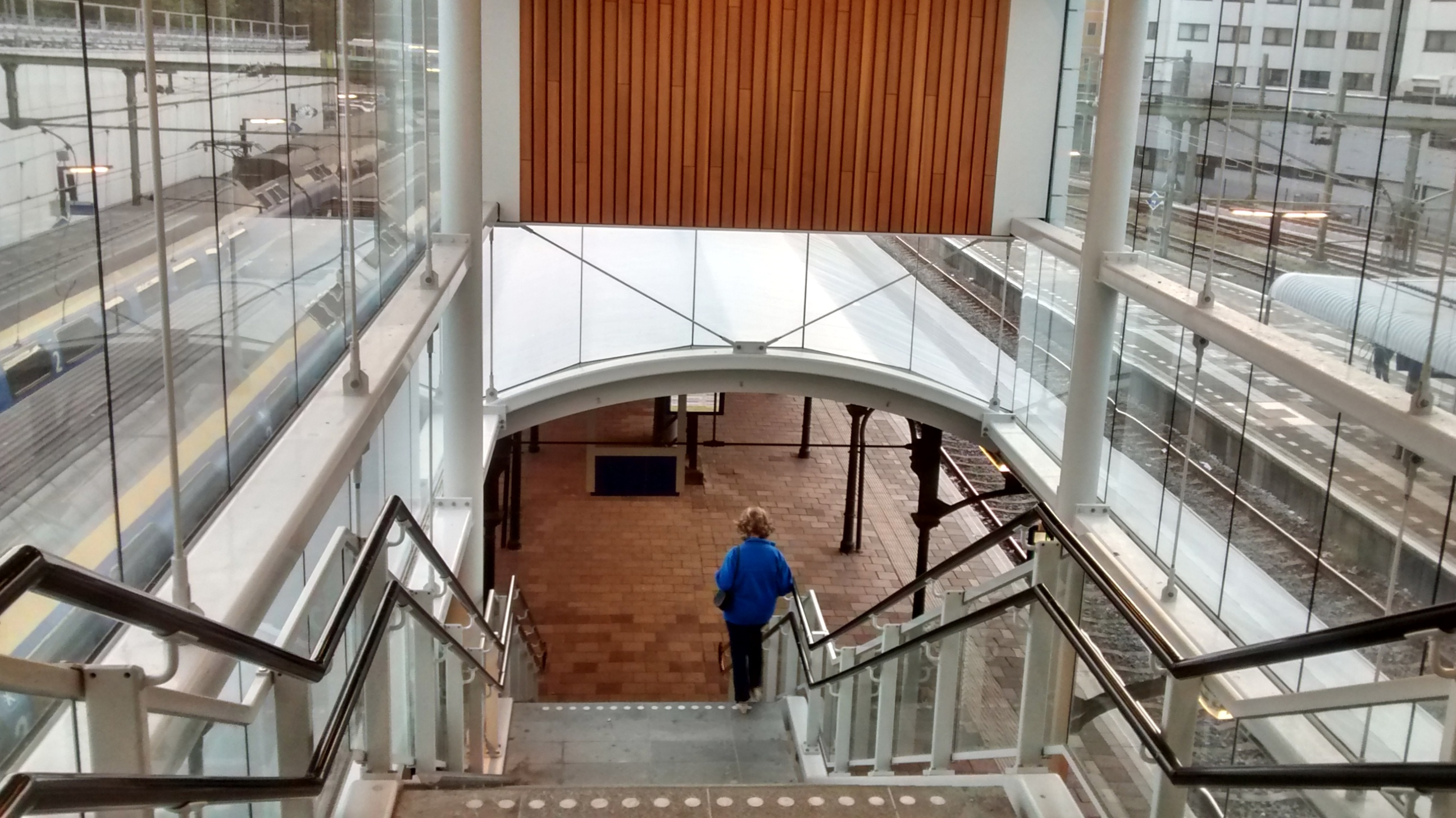 Alkmaar Station in Sep. 2016 -- Photo : Persian Dutch Network